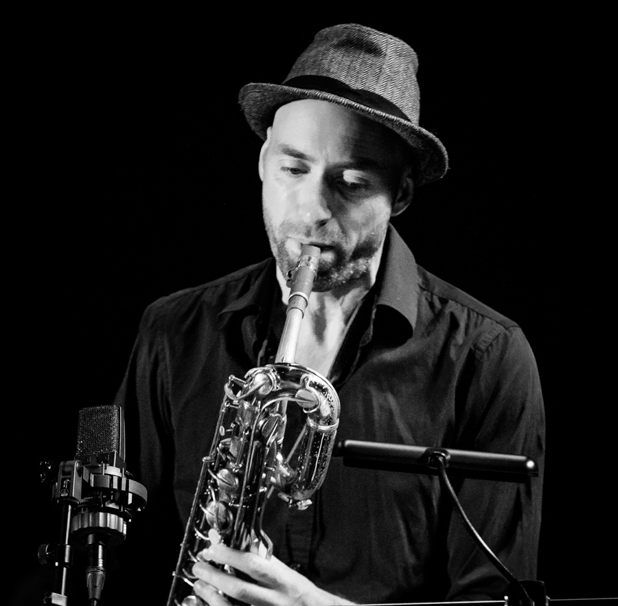 Eirik Hegdal with Trondheim Jazz Orchestra and Joshua Redman at the stage of Kongsberg Musikkteater. The concert was part of Kongsberg Jazzfestival and took place on 06. July 2017. Solist: Joshua Redman (saxophone) Artistic director: Eirik Hegdal (saxophone) Trondheim Jazz Orchestra: Trine Knutsen (flute) Stig Førde Aarskog (clarinet) Eivind Lønning (trumpet) Stein Villanger (french horn) Daniel Weiseth Kjellesvik (french horn) Tor Haugerud (drums) Erik Johannessen (trombone) Ola Kvernberg (violin) Marianne Baudouin Lie (cello) Øyvind F. Engen (cello) Nils Olav Johansen (guitar) Ole Morten Vågan (double bass)